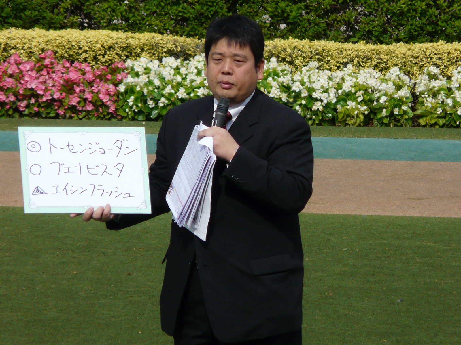 Takao-Suda20111030